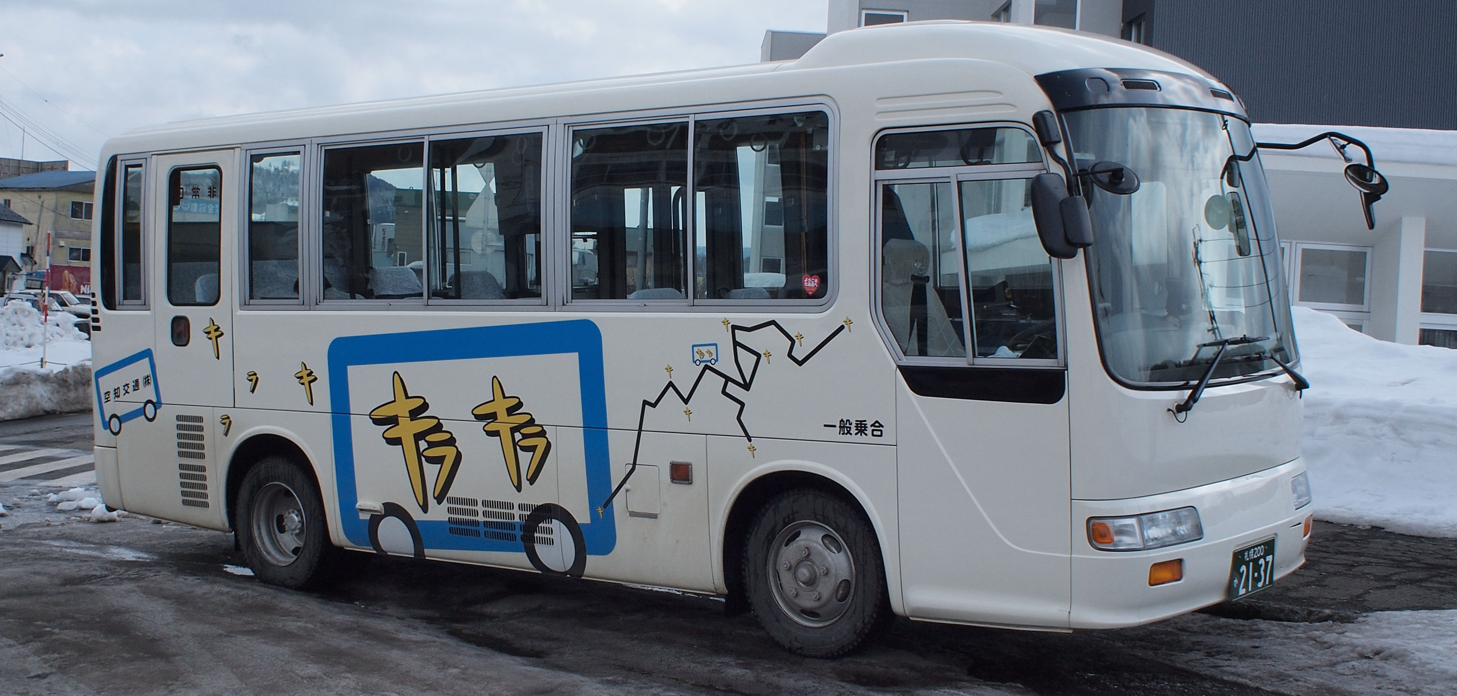 KiraKira bus, Ashibetsu, Hokkaido, Japan